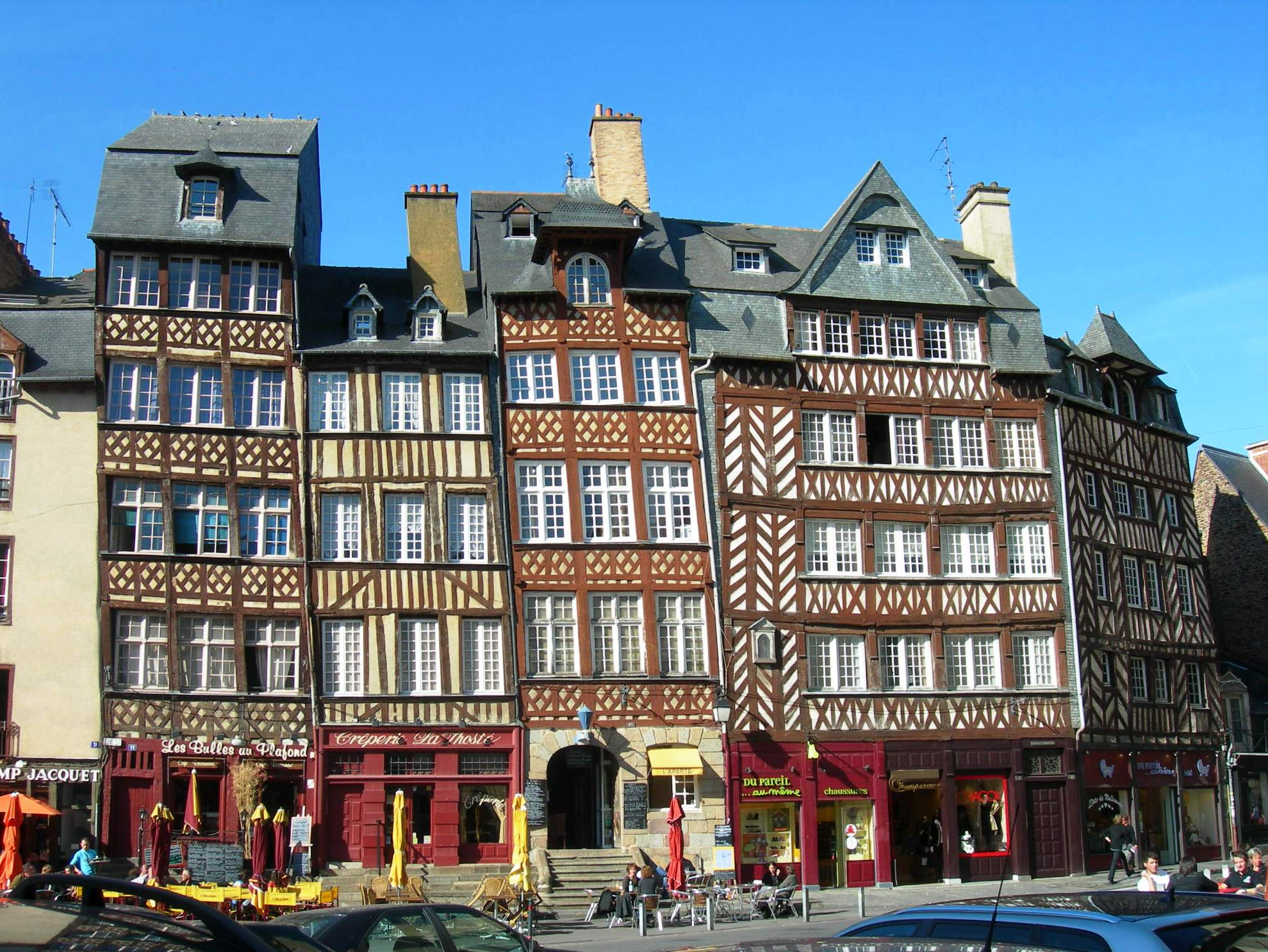 Rennes old houses on Ch-Jacquet square